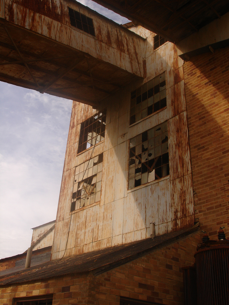 Missouri Mines State Historic Site, St. Francois County, Missouri. .